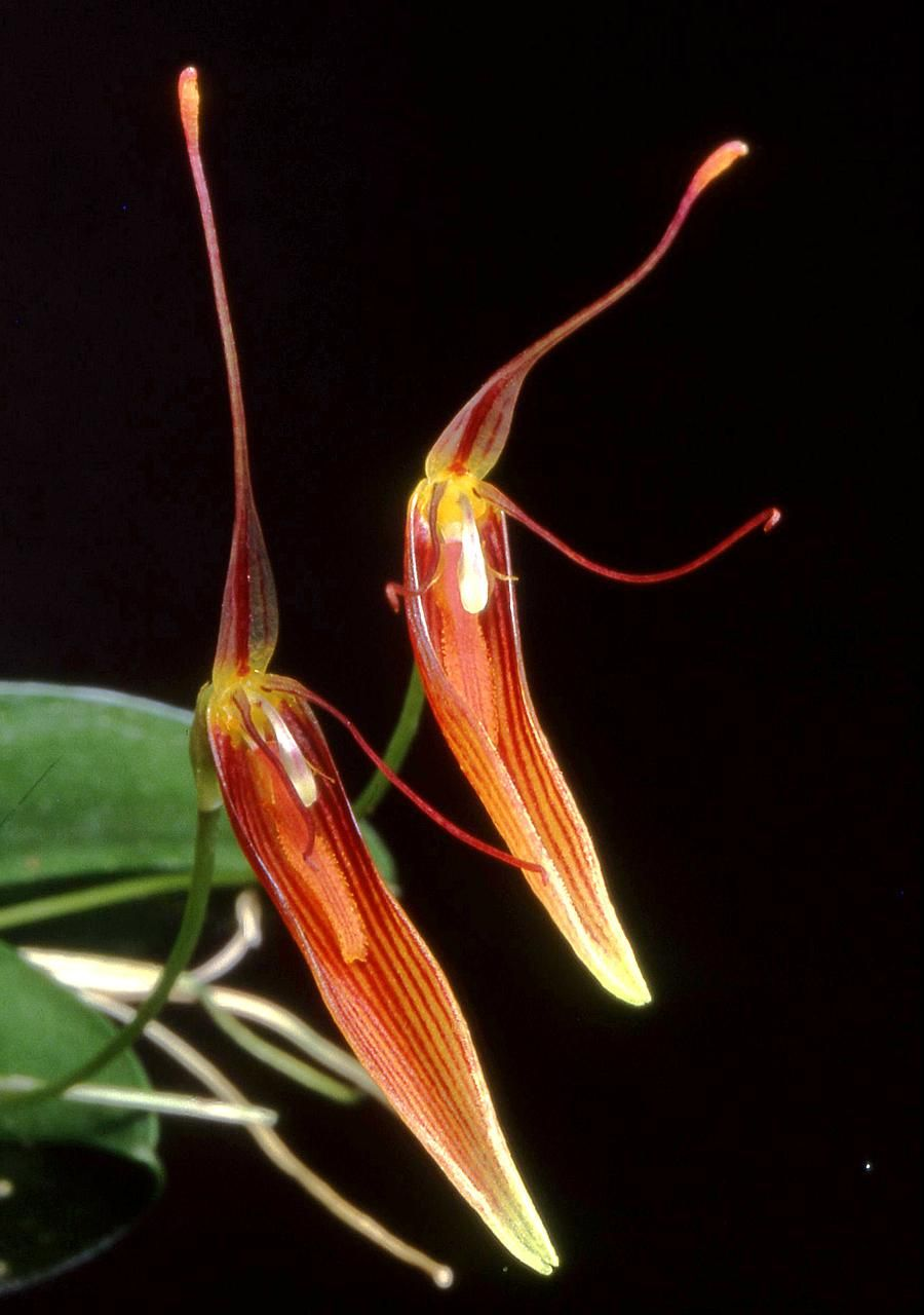 Restrepia trichoglossa - flowers